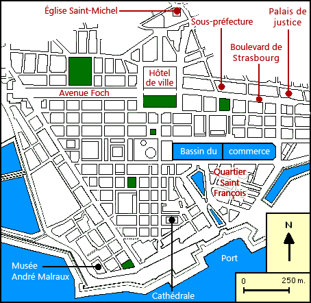 Map of Le Havre, (downtown), in Normandy.